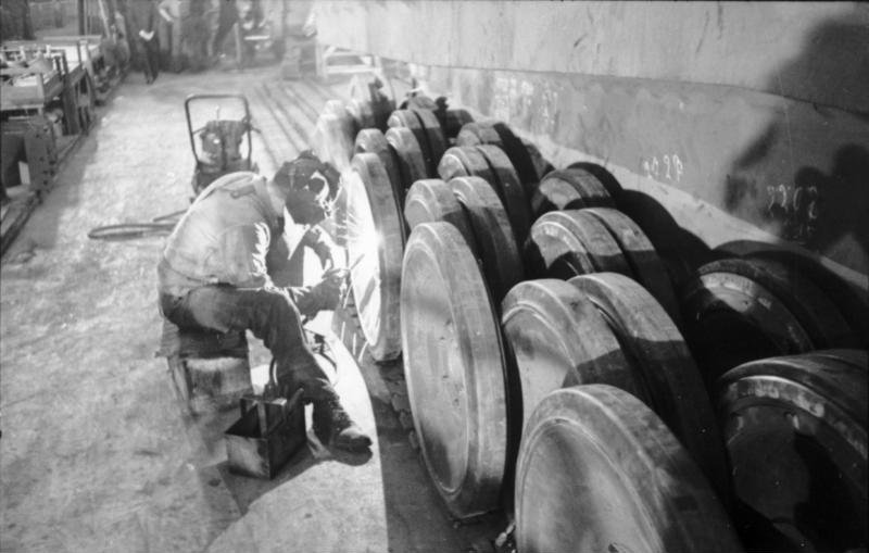 Information added by Wikimedia users.